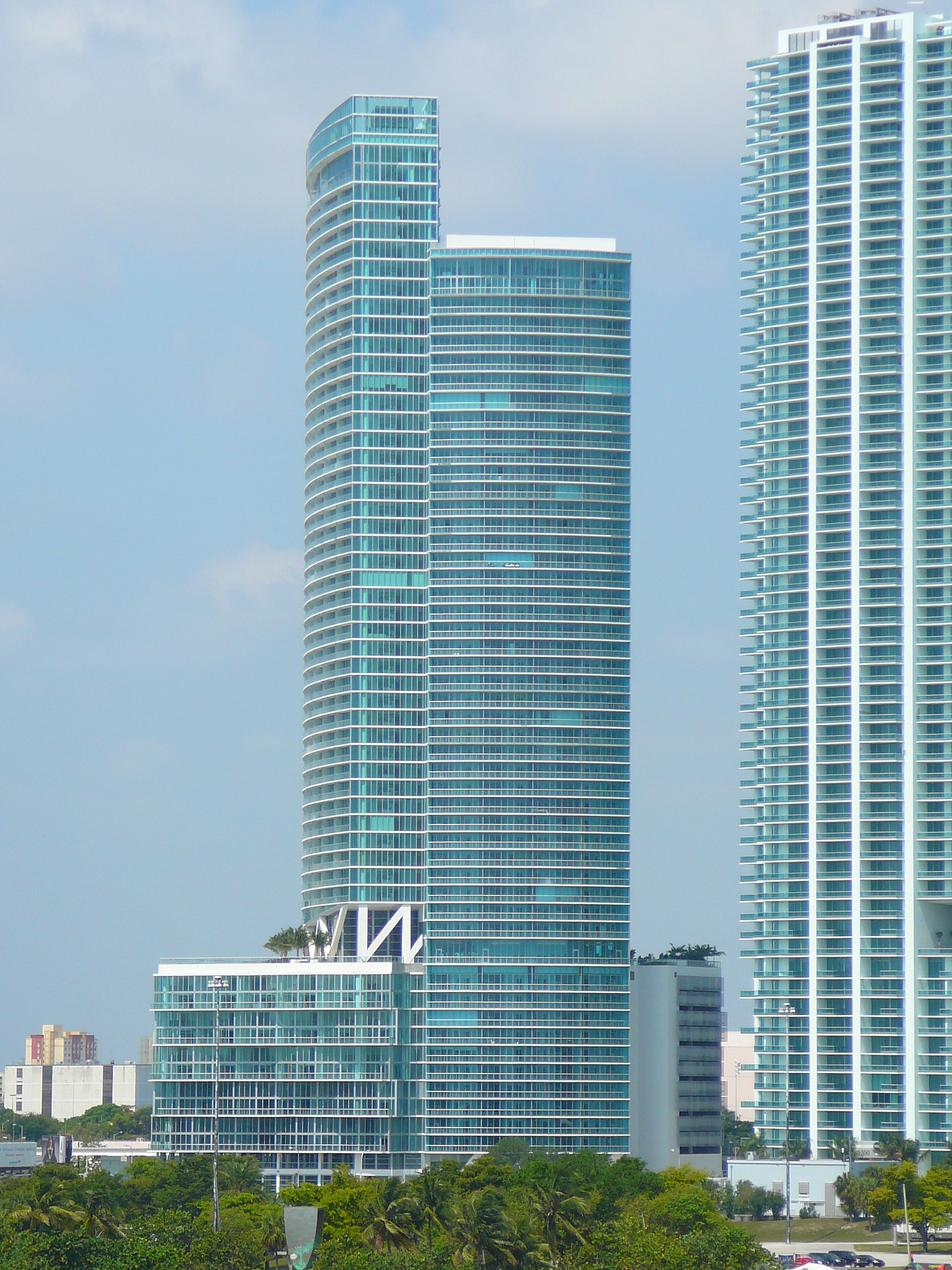 Digital photo taken by Marc Averette. Marinablue in Downtown Miami as seen from the east, 5/17/2008